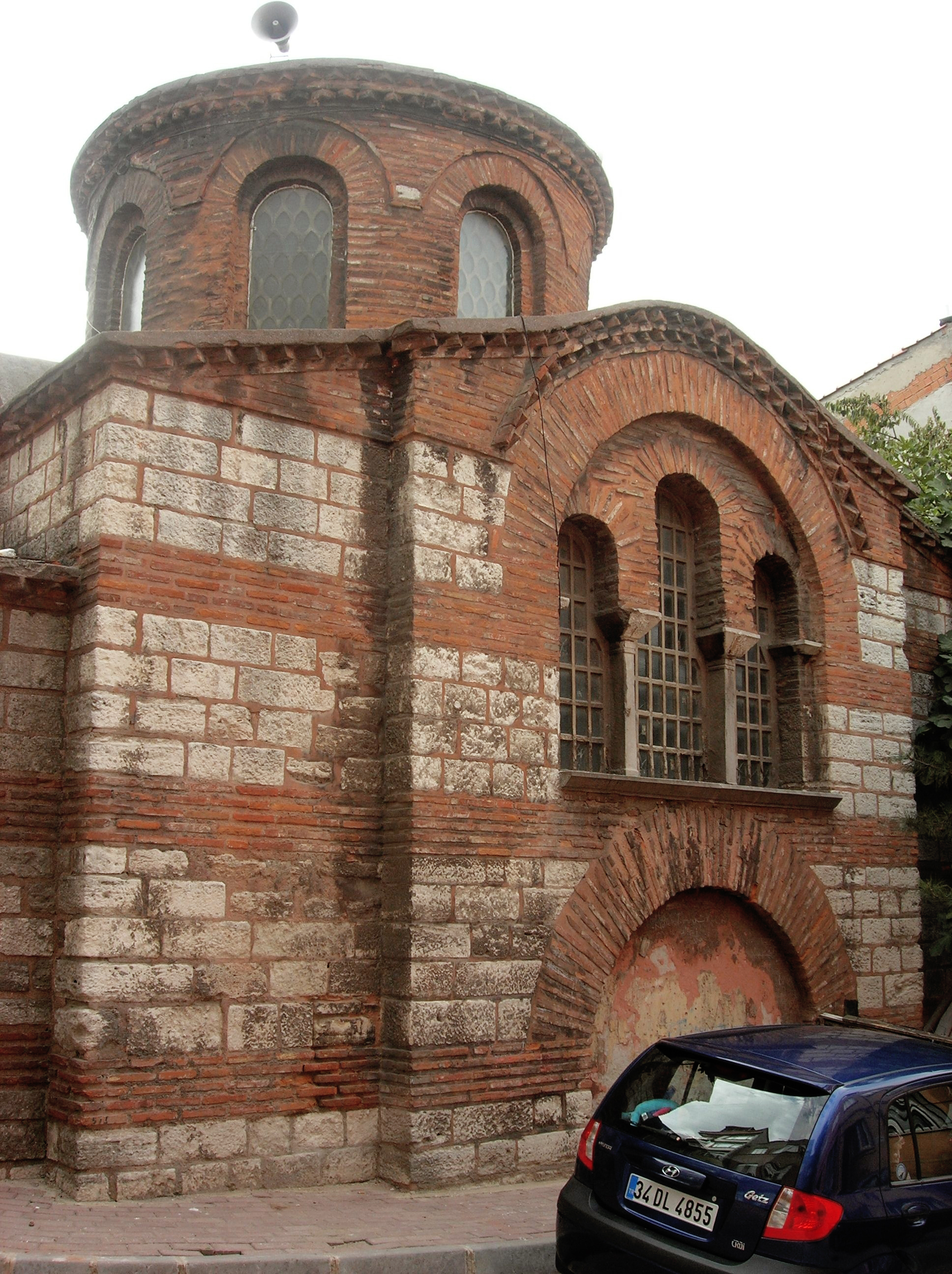 The North side of the Mosque of Hirami Amhet Pasa ( former Church of the St. John the Baptist en to Troullo) in Istanbul viewed from NE